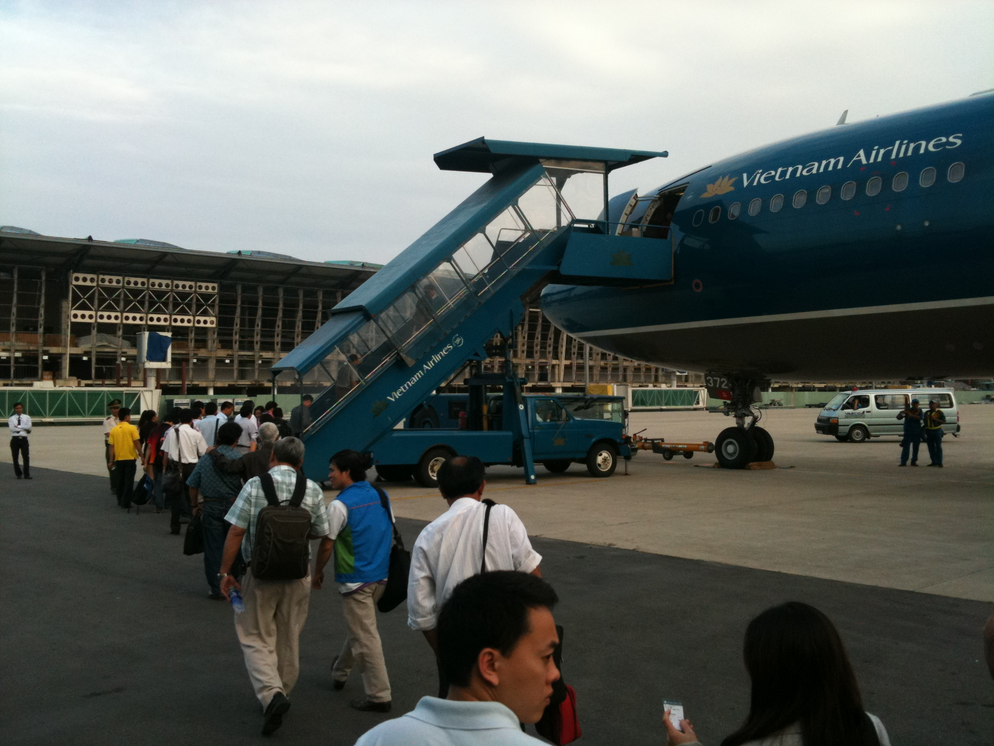 A Vietnam Airlines Airbus 330 jet boards in front of the new international terminal at Da Nang Int'l Airport, still under construction.